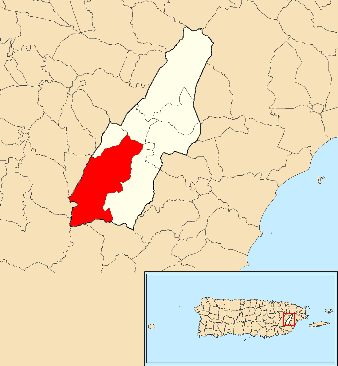 Montones, Las Piedras, Puerto Rico locator map